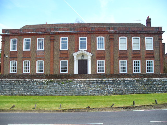 Smiths Hall Georgian manor house, sometimes used for film sets, in the village centre. The OS map names it as "West Farleigh Hall".